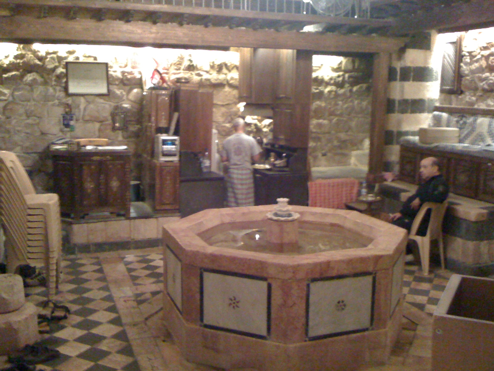 pools market in Damascus